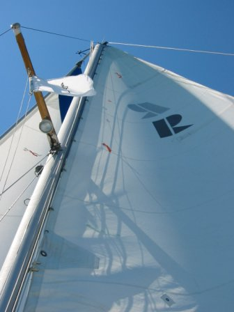 Author: Drew Lambert, 2006